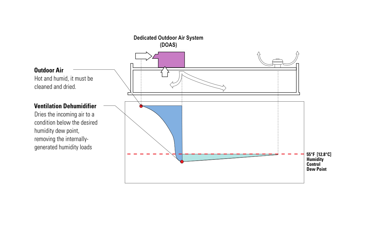 An airflow diagram that shows the path of outdoor air through a dedicated outdoor air system (DOAS), along with the fact that typically, a DOAS unit dries outdoor air below the target indoor dew point to help ensure humidity control when outdoor air is excessively humid